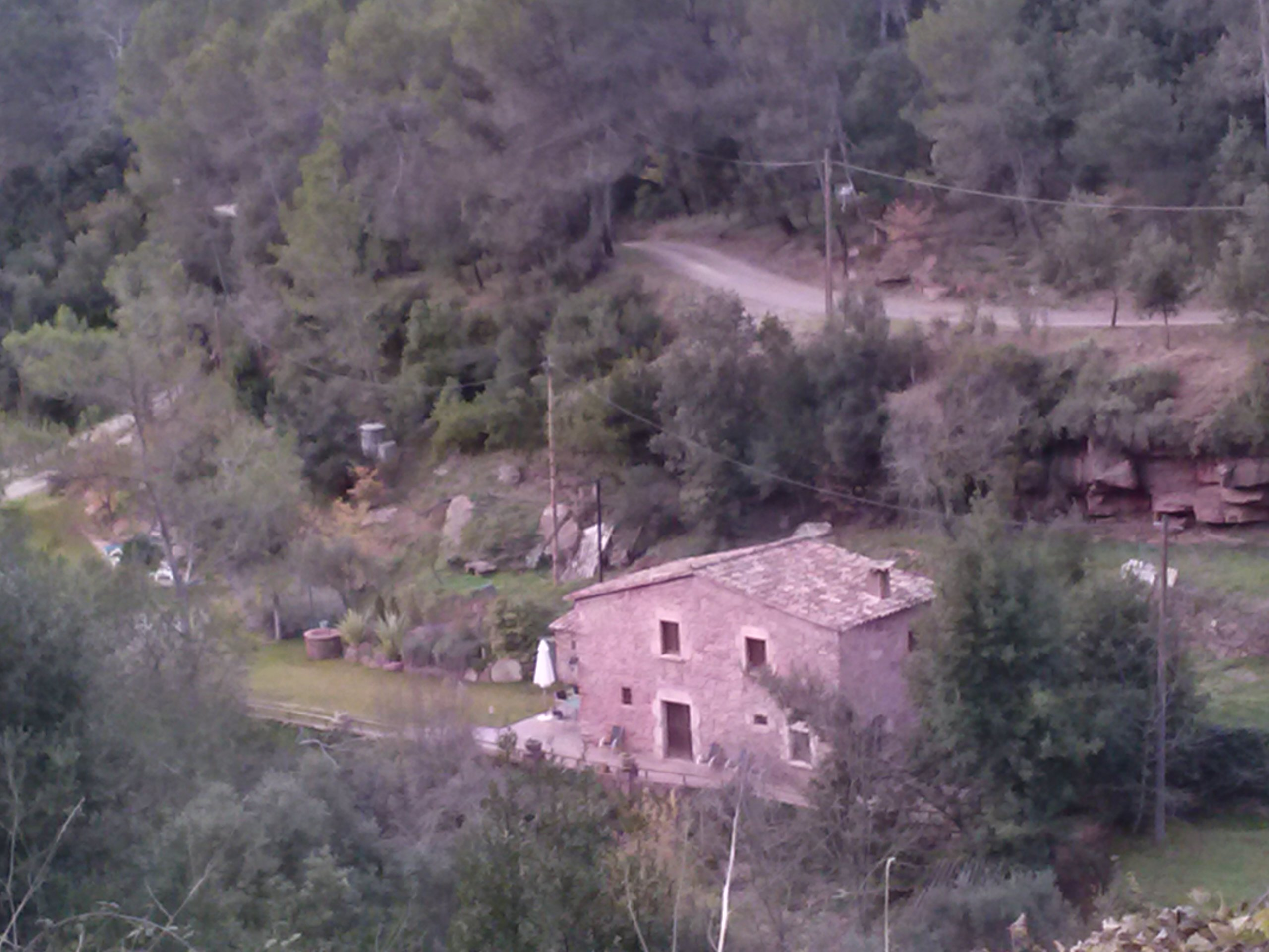 Cal Músich -XVII century, Tagamanent (Catalonia)